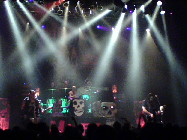 The Misfits performing at the House of Blues in San Diego, California on November 19, 2008. Left to right: Jerry Only, Robo, and Dez Cadena.